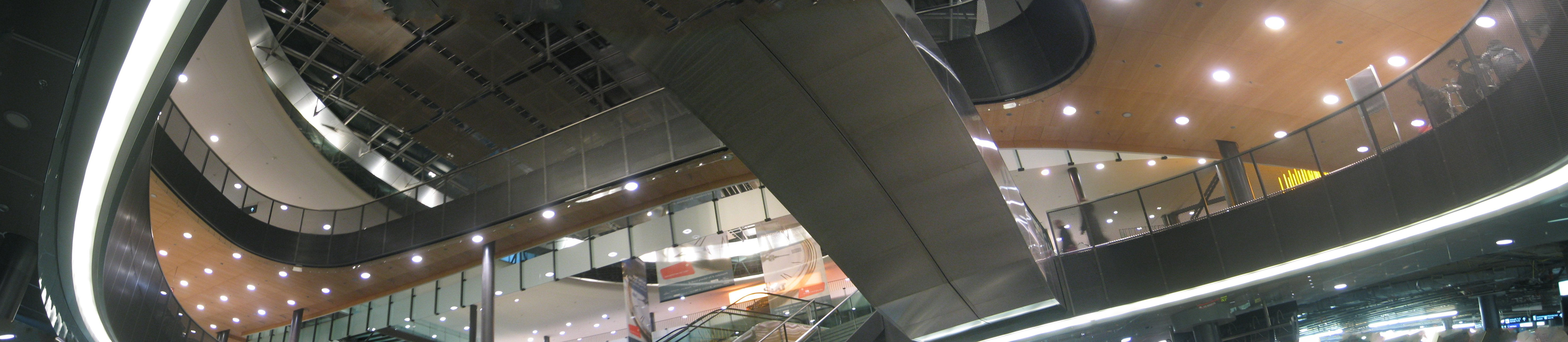 A panorama